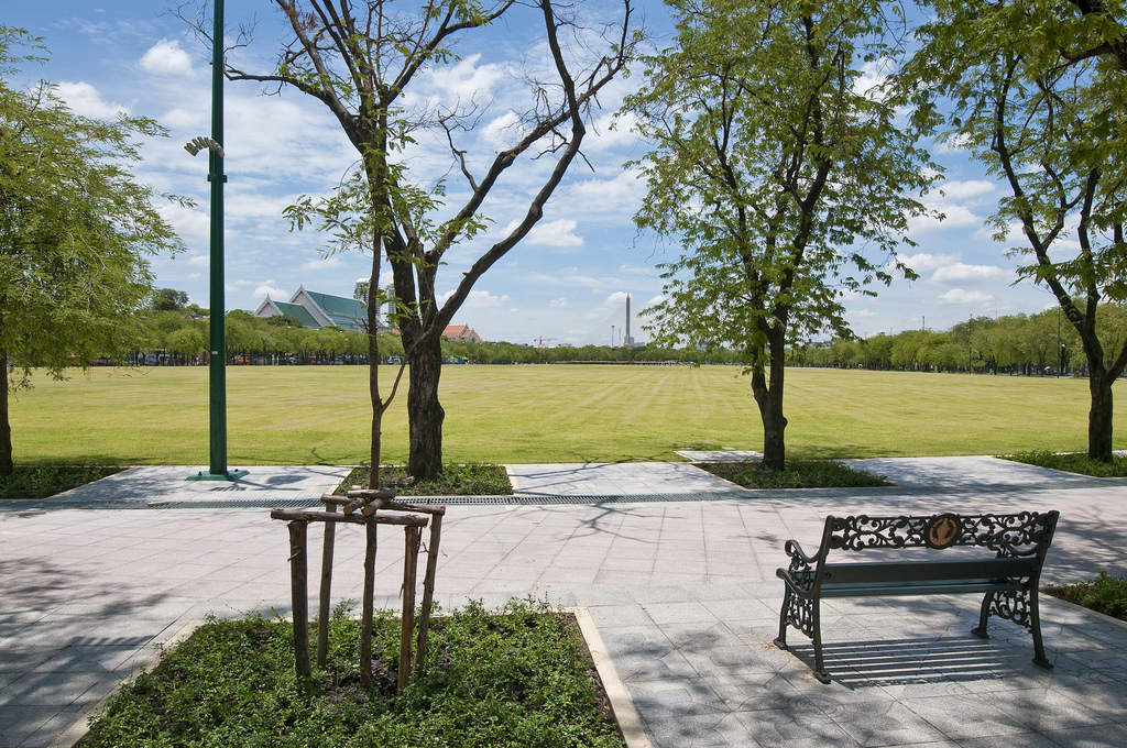 Sanam Luang, Phra Nakhon district, Bangkok, Thailand. The new lawn after the renovation of 2010-2011